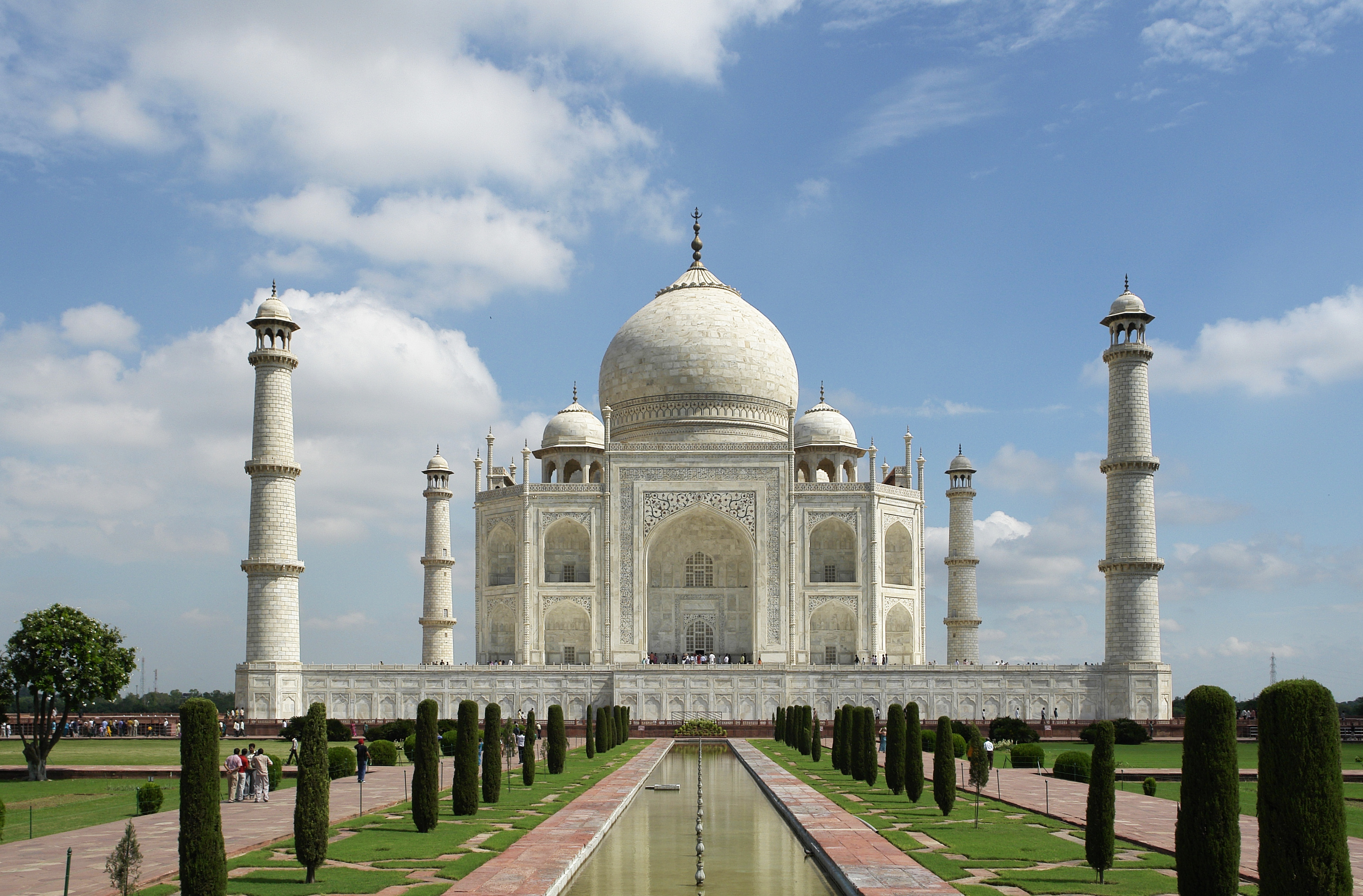 Taj Mahal, Agra. FP on the English Wikipedia.